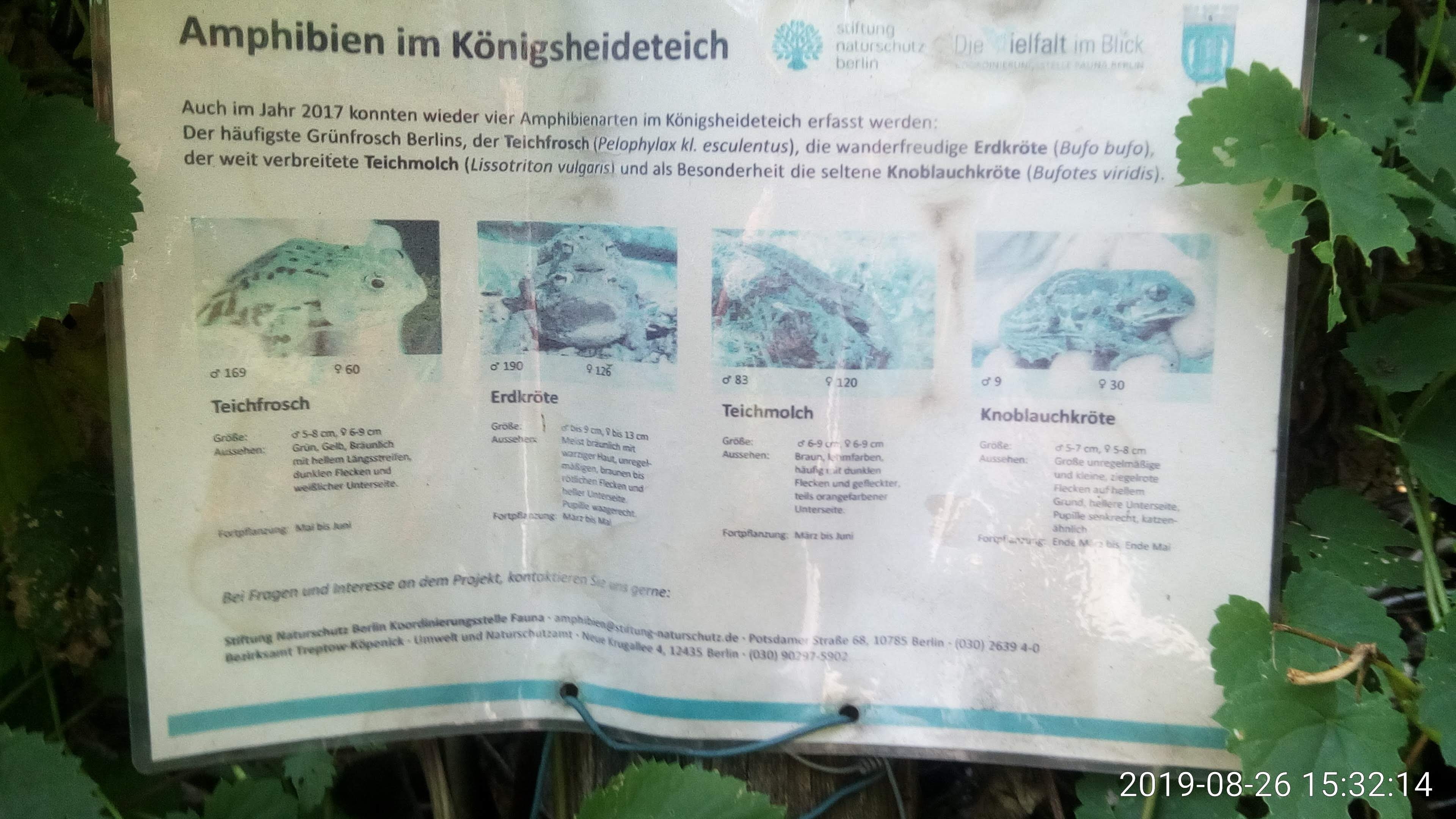 Amphibiae of four endangered species live in the Königsheideteich wetland in Southeastern Berlin.